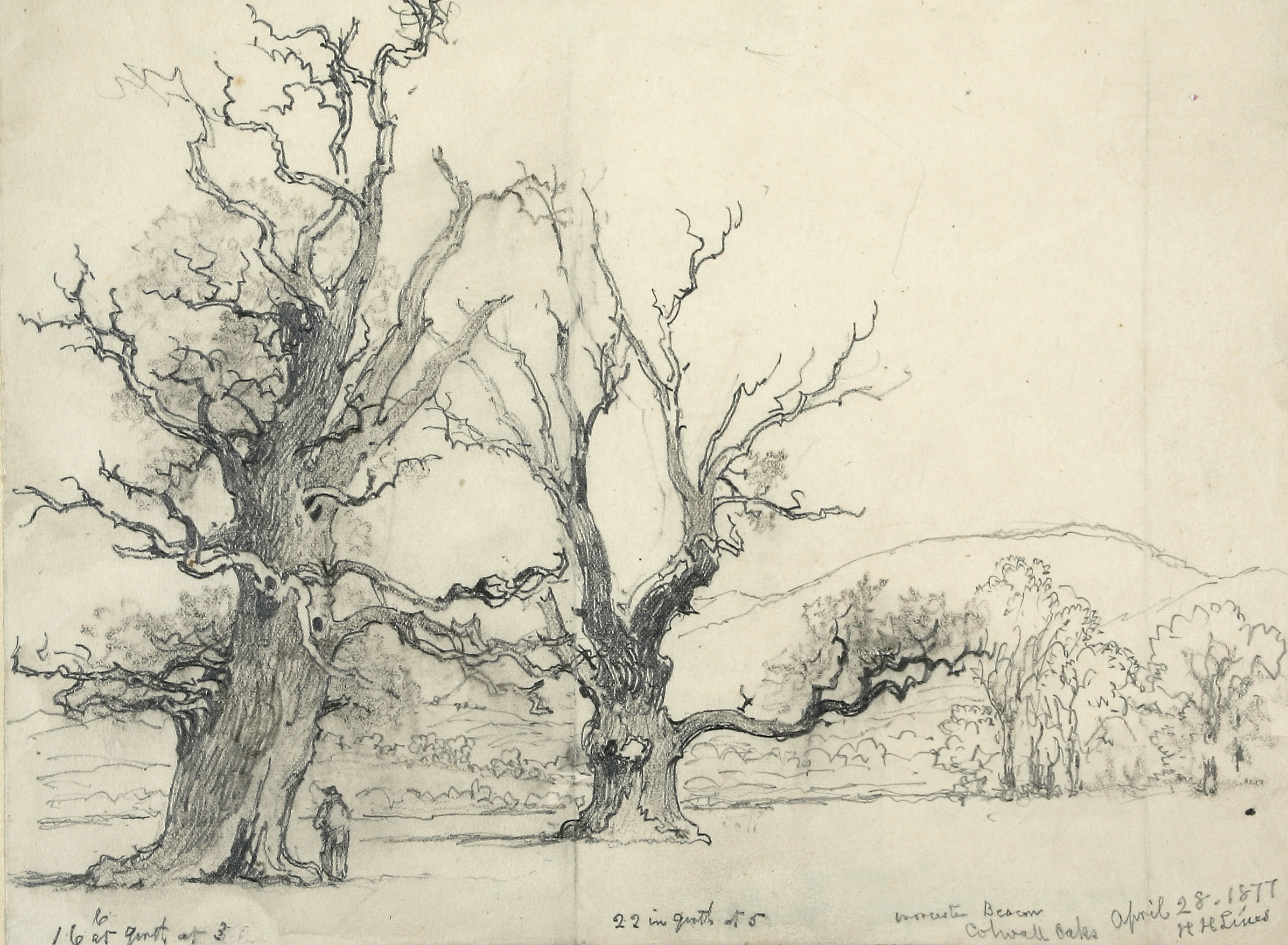 Drawing of trees at Colwall Oaks.